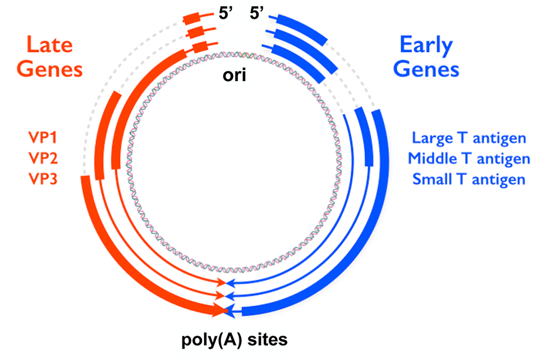 Genome map of the mouse polyomavirus circular double-stranded DNA genome, around 5.3 kilobases in length. The early genes (expressed early in the infectious cycle in a host cell) are at right in blue, the late genes are at left in red, and the origin of replication is oriented at the top. The early genes comprise the large, middle, and small tumor antigen proteins, produced from a single messenger RNA transcript by alternative splicing as shown by thickened bars. The late genes comprise the viral capsid proteins. Cropped from Figure 1A of: Garren SB, Kondaveeti Y, Duff MO, Carmichael GG (2015) Global Analysis of Mouse Polyomavirus Infection Reveals Dynamic Regulation of Viral and Host Gene Expression and Promiscuous Viral RNA Editing. PLOS Pathogens 11(9): e1005166.